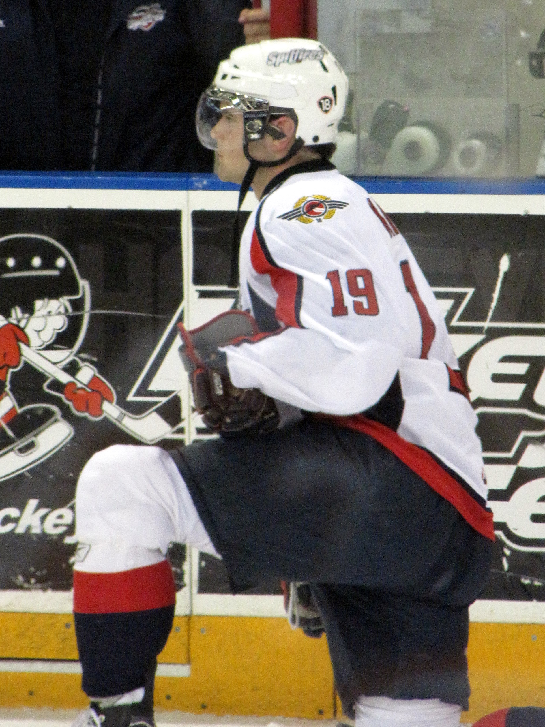 Windsor Spitfires forward Zack Kassian during a game against the Kitchener Rangers on April 20, 2010.